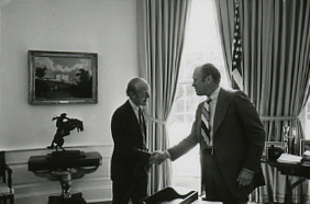 The photo contact sheet, identified as A4736 by the White House Photographic Office (WHPO), is housed at the Gerald R. Ford Presidential Library, a branch of the National Archives and Records Administration (NARA). This file is a 200 dpi photo contact sheet having images from roll of film A4736 of the August 9, 1974 - January 20, 1977 Gerald R. Ford White House Photographic Office Series A0001-A9999 and B0001-B2886 photographs. The date on the photo contact sheet is the date the roll of film was processed, not necessarily the date the photographs were taken. See table below for additional details.